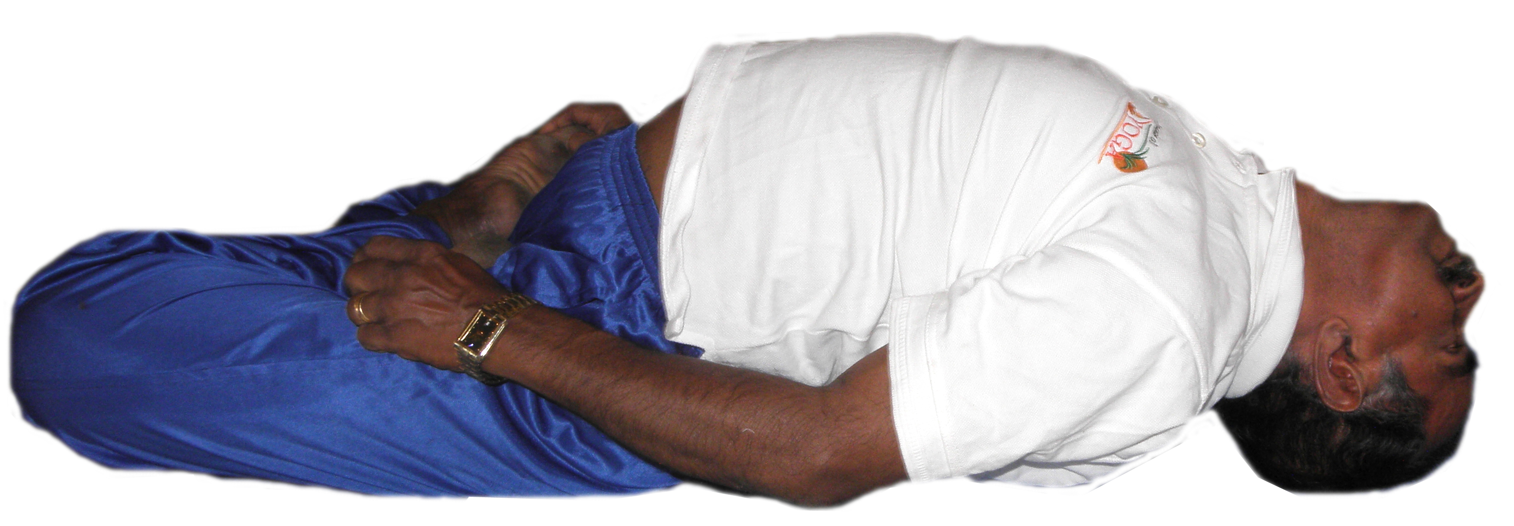 Fish pose